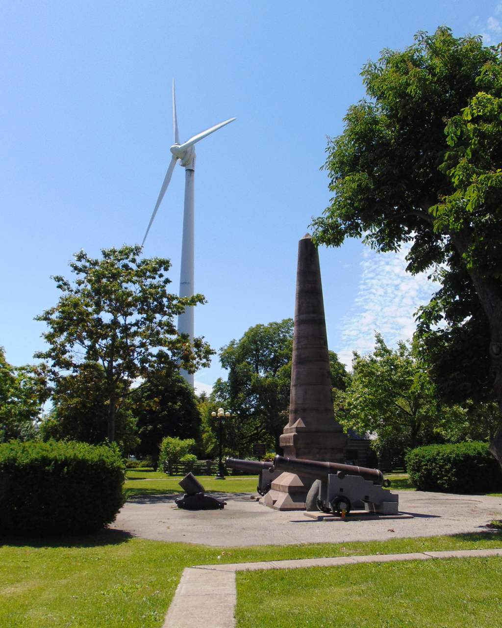 Exhibition Place Toronto, Fort Rouillé Monument with Windshare turbine